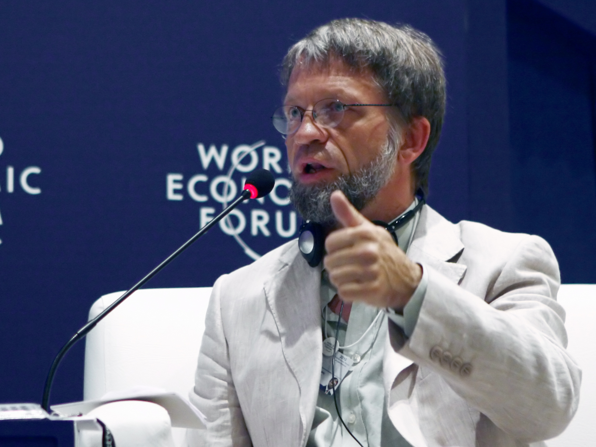 CARTAGENA/COLOMBIA,08APRIL2010 - Antanas Mockus, Presidential Candidate, Green Party, Colombia in the sesson Towards Low-Carbon Prosperity at the World Economic Forum on Latin America 2010 in Cartagena Convention Center from 6 - 8 April. Copyright World Economic Forum / Edgar Alberto Domínguez Cataño